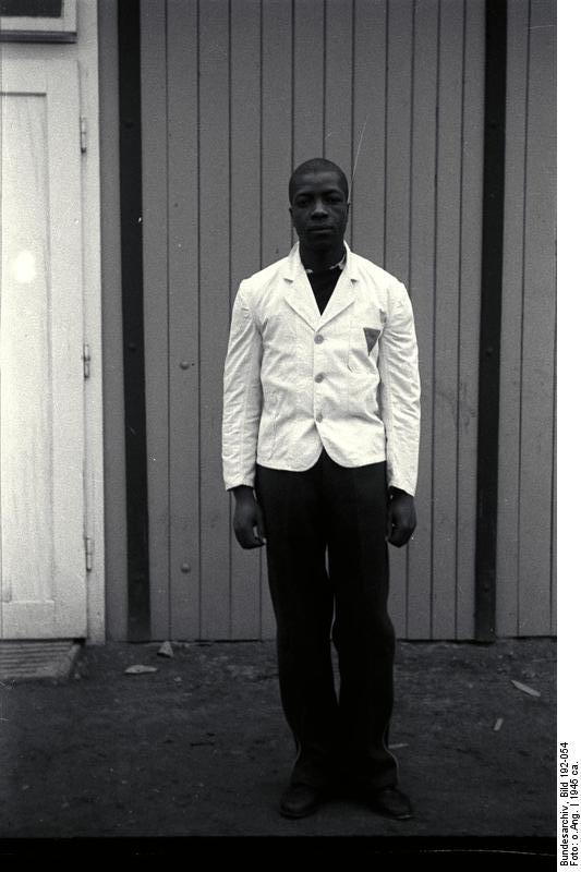 Information added by Wikimedia users.